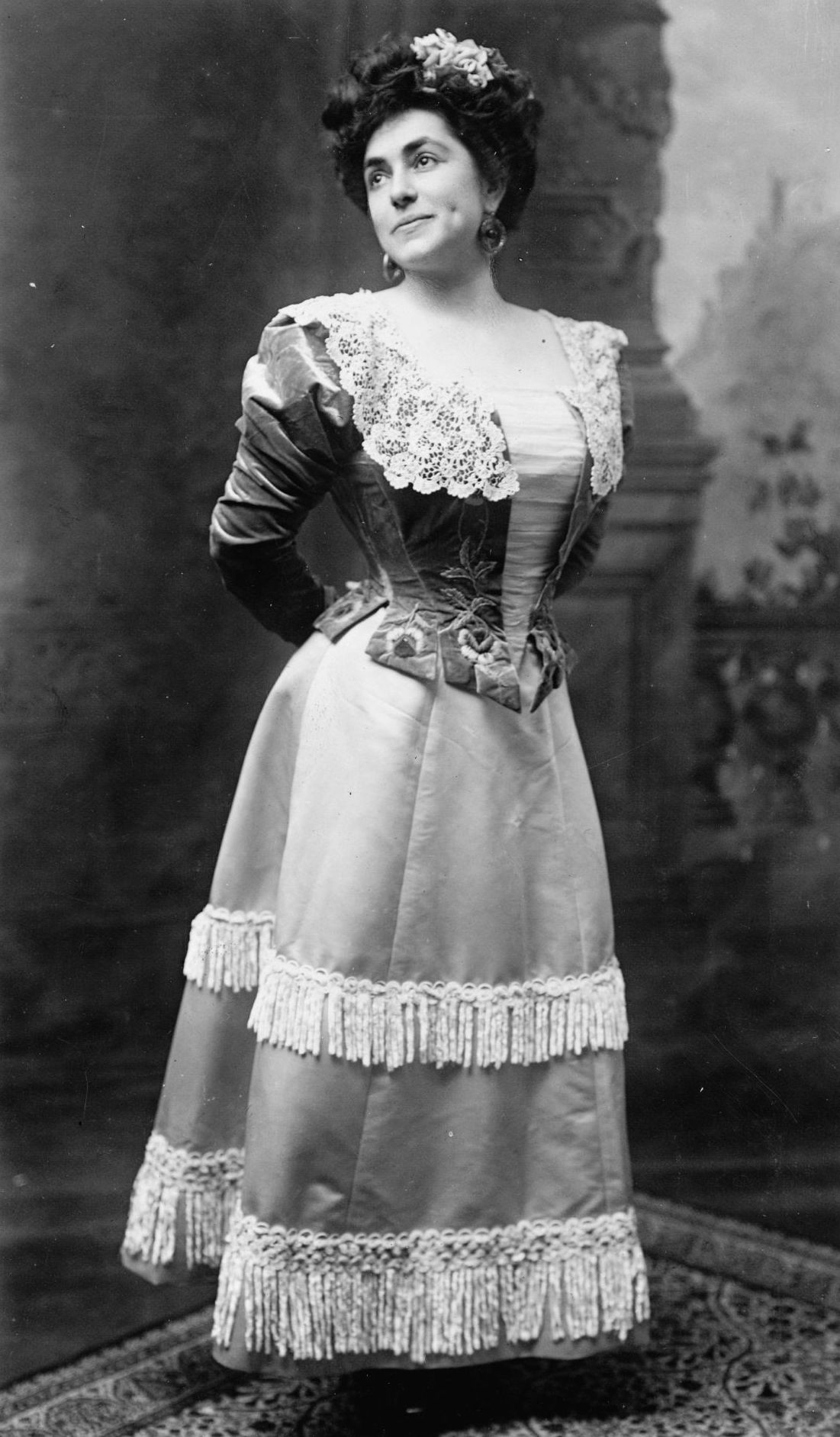 Pauline Donalda (1882-1970) as Terlina